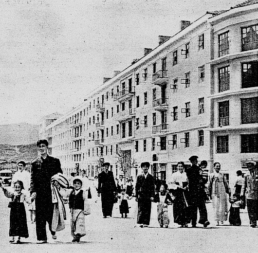 Kanggye circa 1960